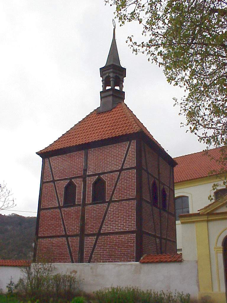 bell tower, Cirkvice, Czech Republic